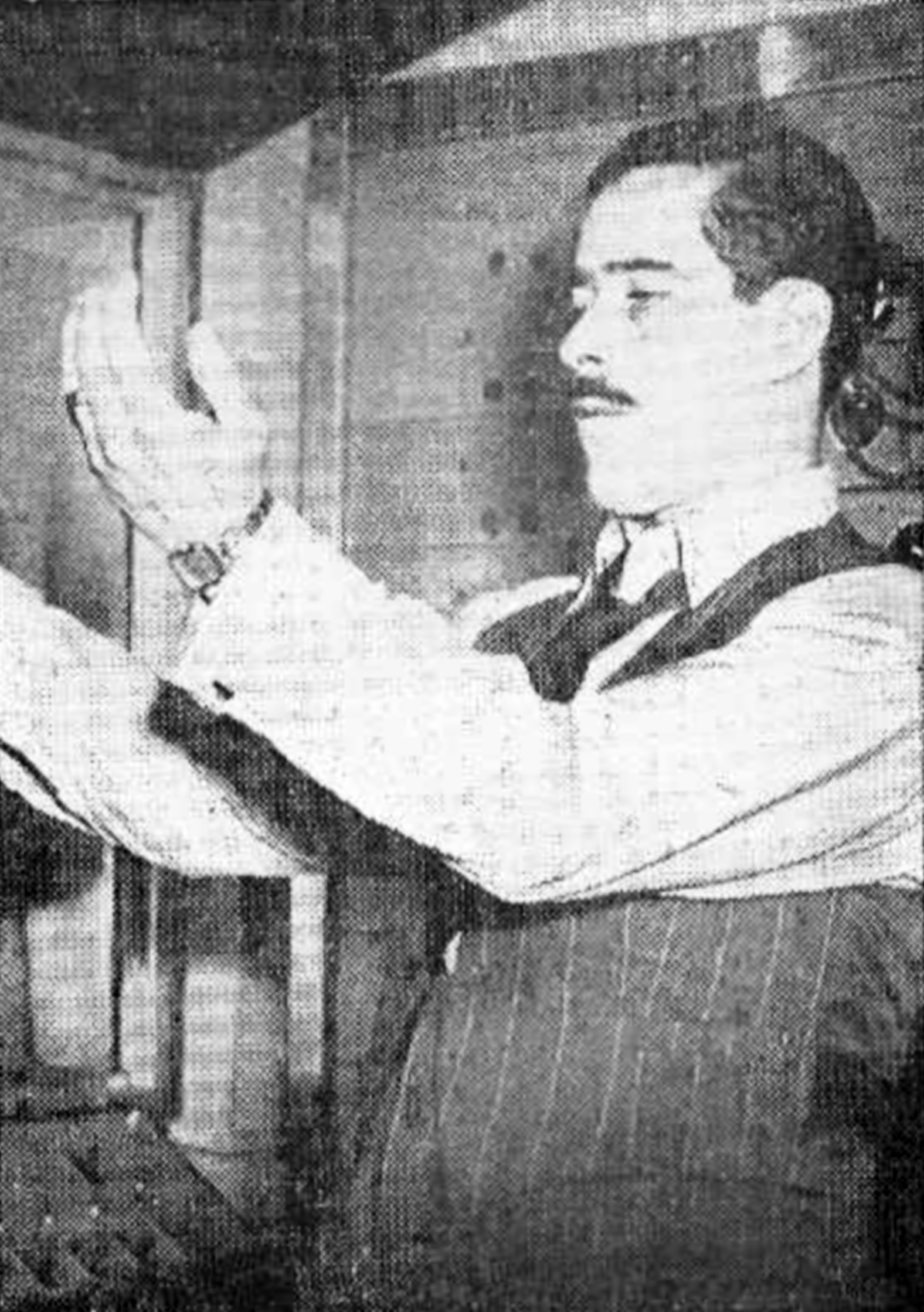 William N. Robson, producer of CBS Radio's "An Open Letter to the American People" (July 24, 1943), recipient of a Peabody Award for Outstanding Entertainment in Drama